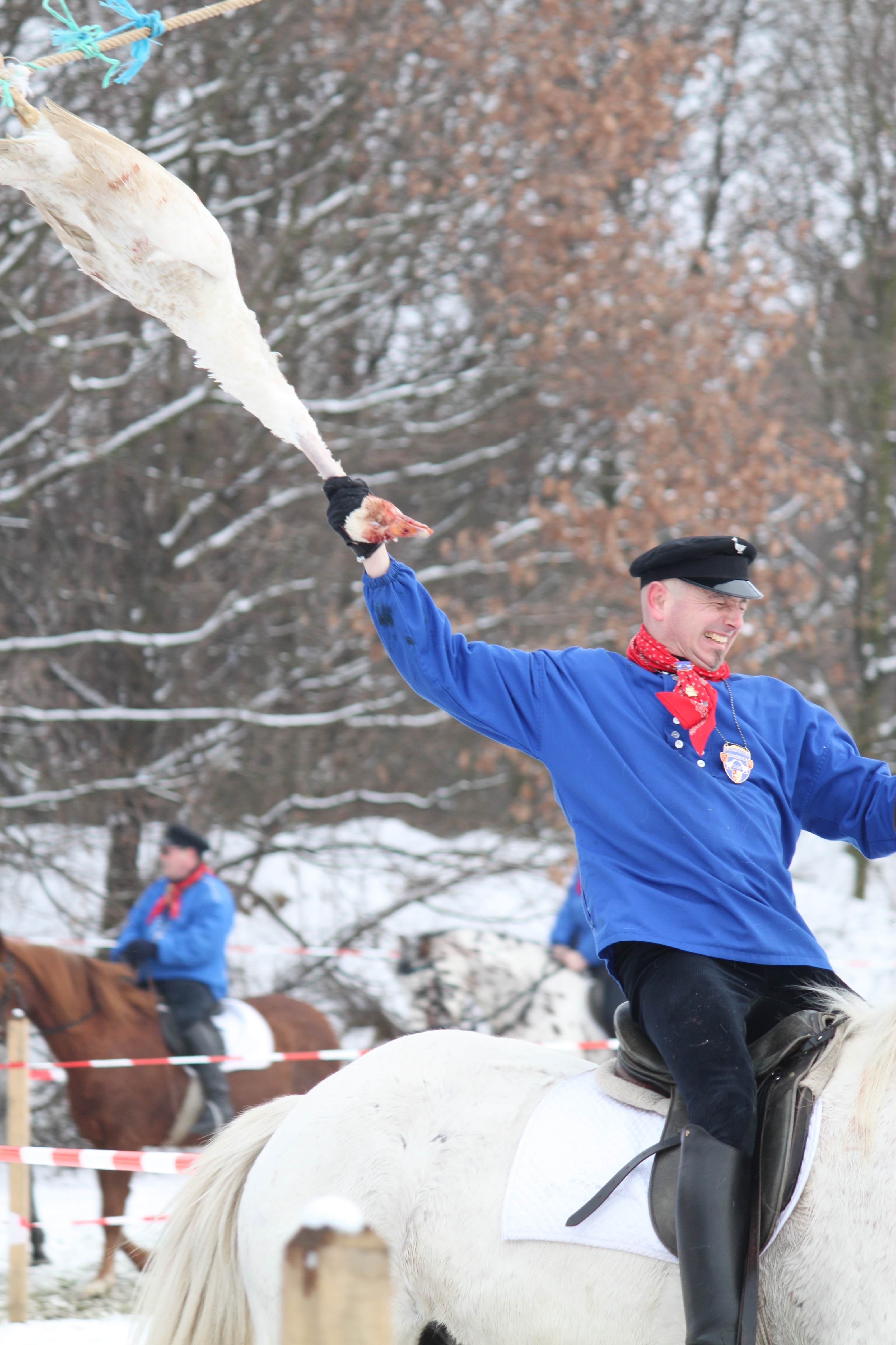 Goose pulling (Gänsereiten) in Sevinghausen, Germany.